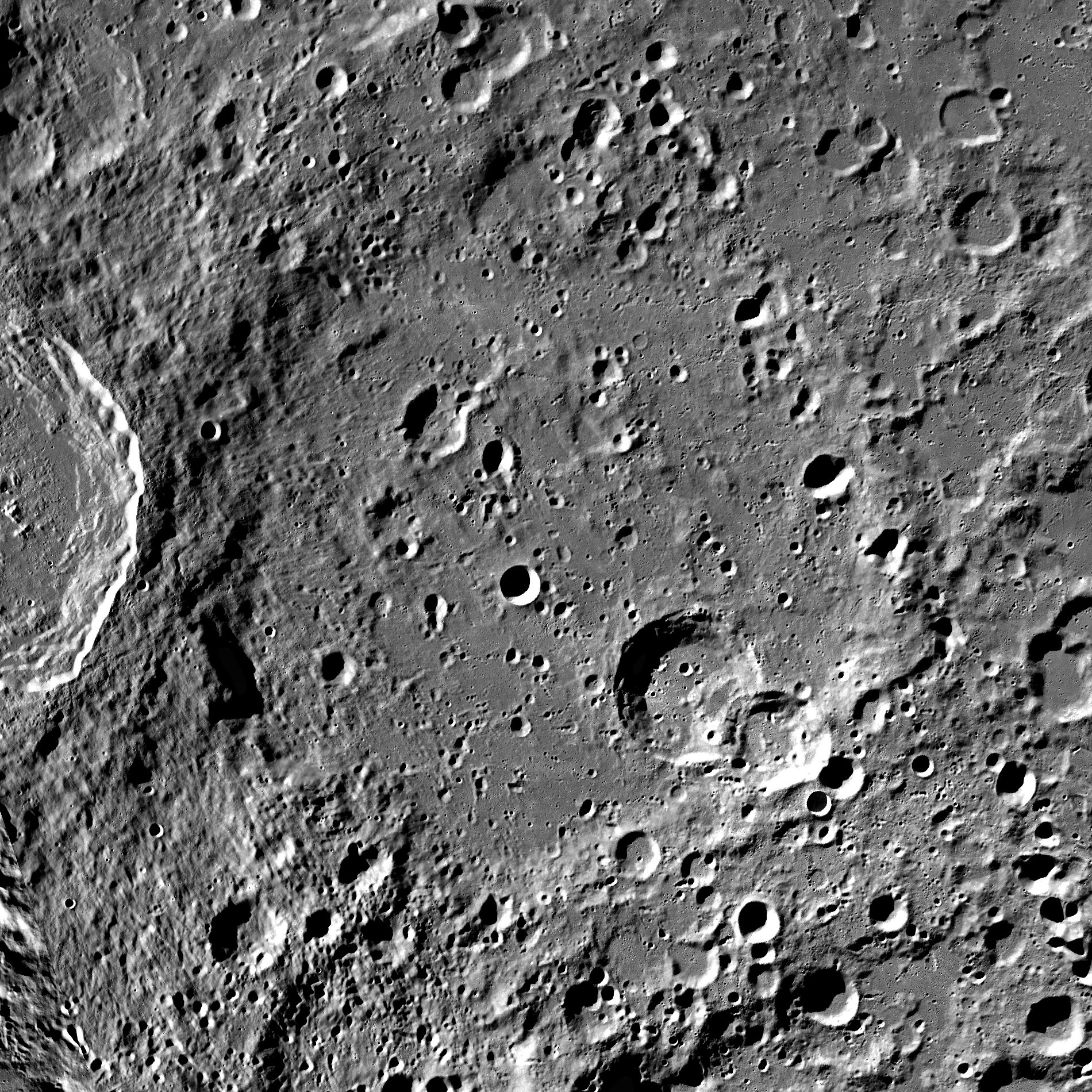 Crater Bailly on the Moon. Mosaic of photos by Lunar Reconnaissance Orbiter, made with Wide Angle Camera. Size of the image is 450×450 km, north is up.